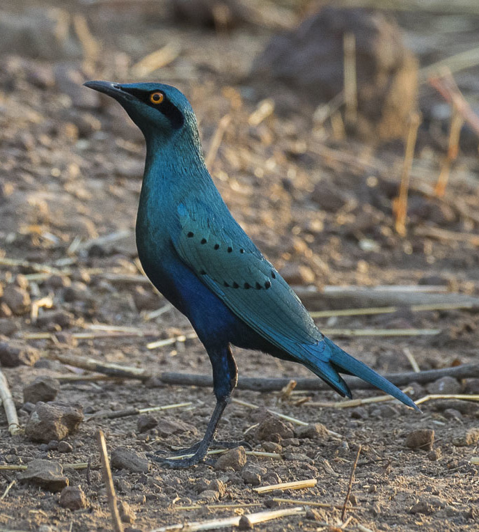 Lesser Blue-eared Glossy-Starling - Gambia 17_CD5A1282